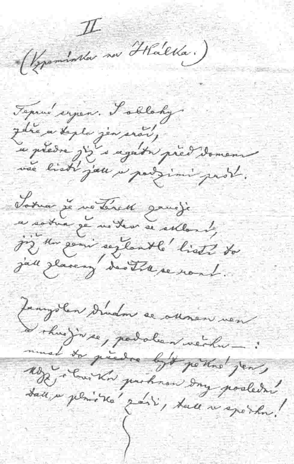 Neruda hand writing of poem Srpen (August) from garner Prosté motivy (Plain motives).